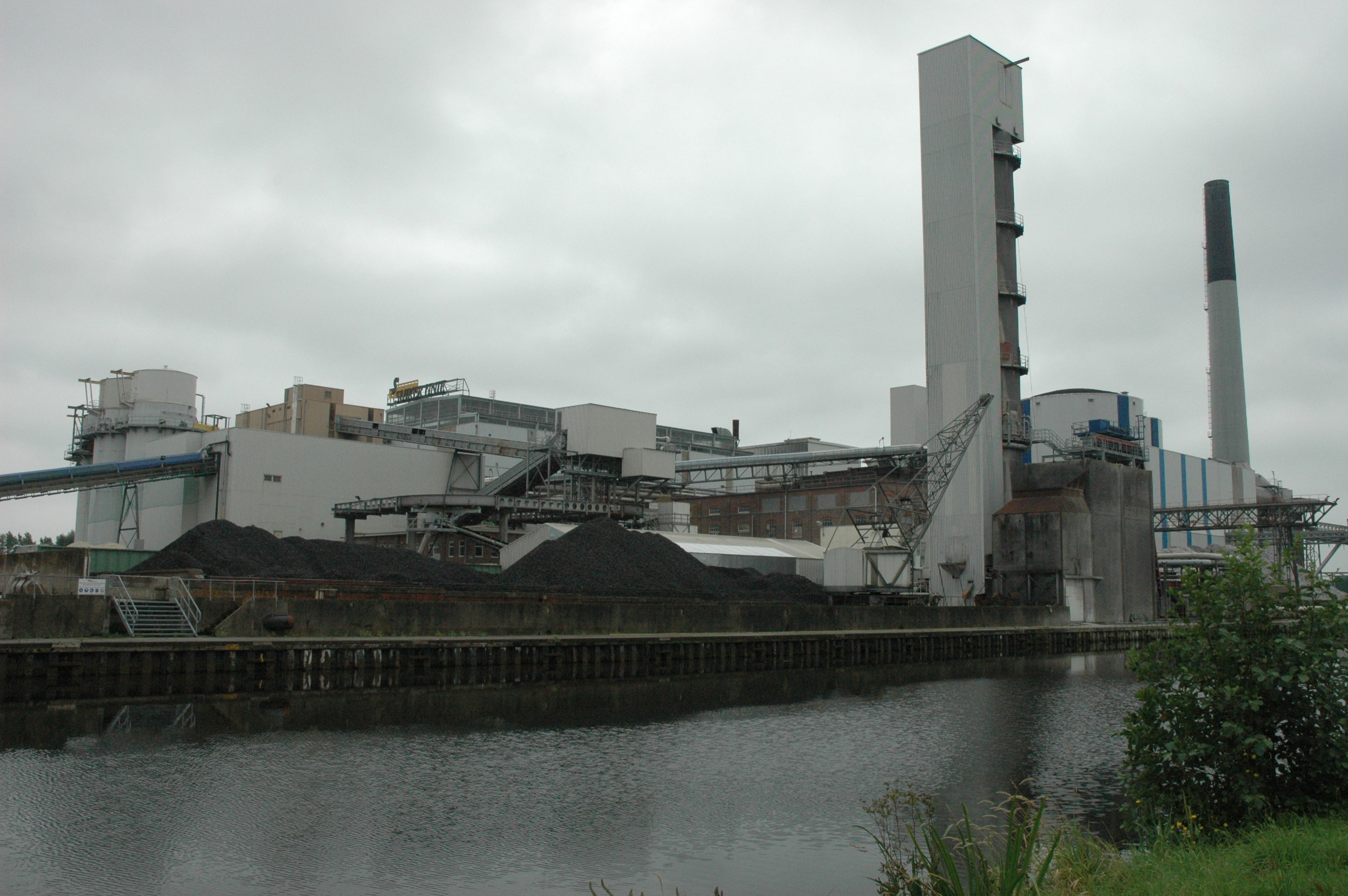 Beet sugar factory, Groningen, The Netherlands